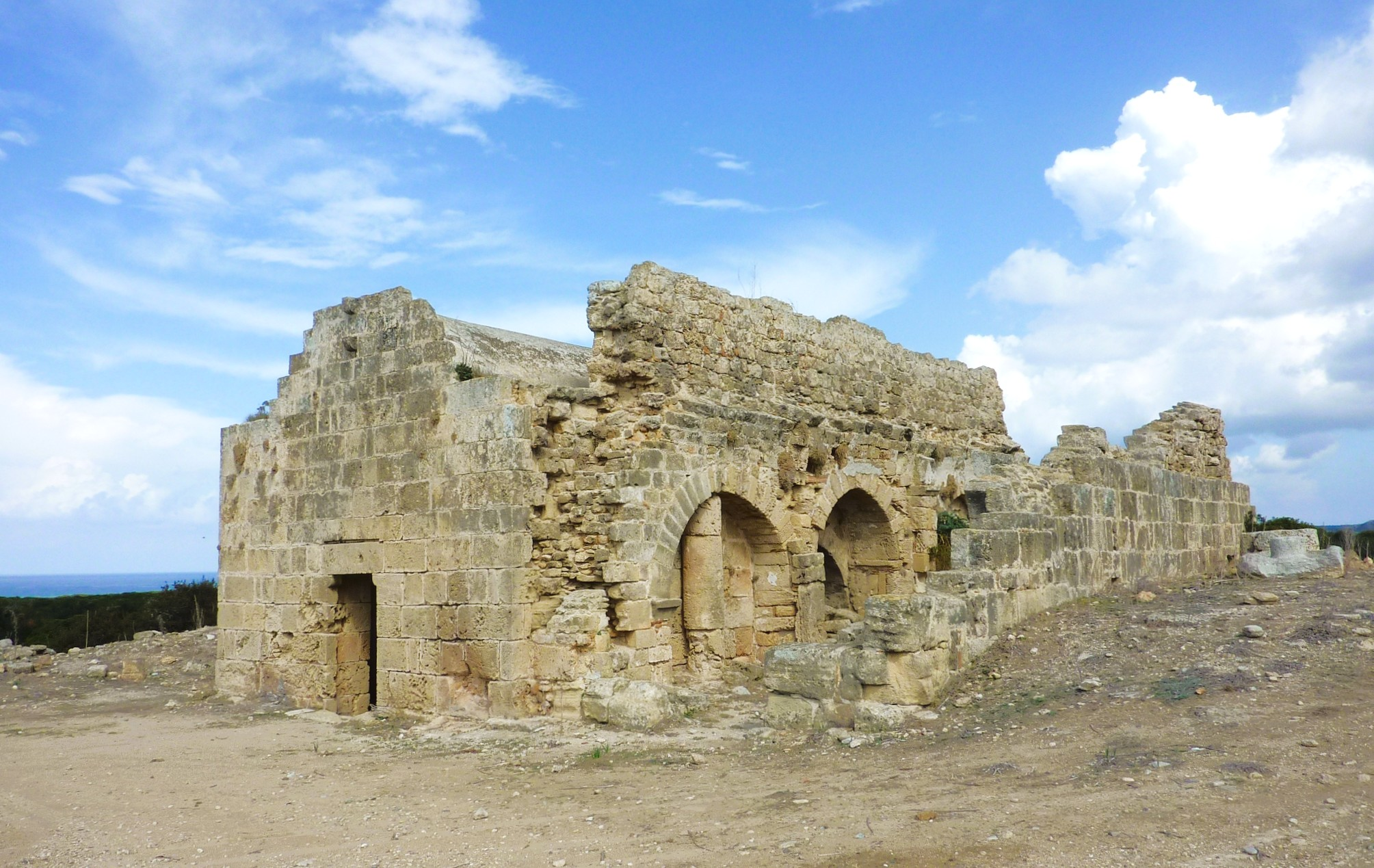 Panagia Chrysiotissa, Aphendrika (near Dipkarpaz)